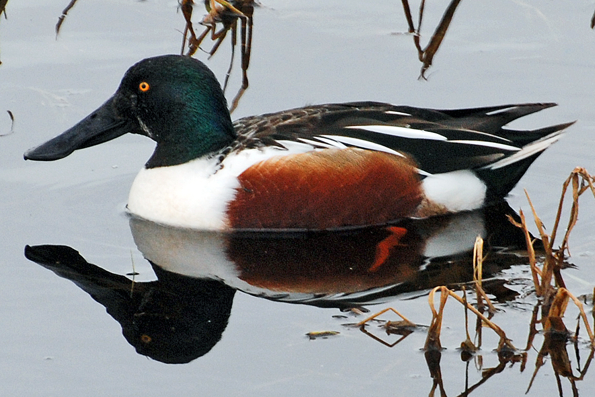 The Northern Shoveler (Anas clypeata) is a common duck. In North America it breeds along the southern edge of Hudson Bay and west, and as far south as the Great Lakes west to Colorado, Nevada, and Oregon